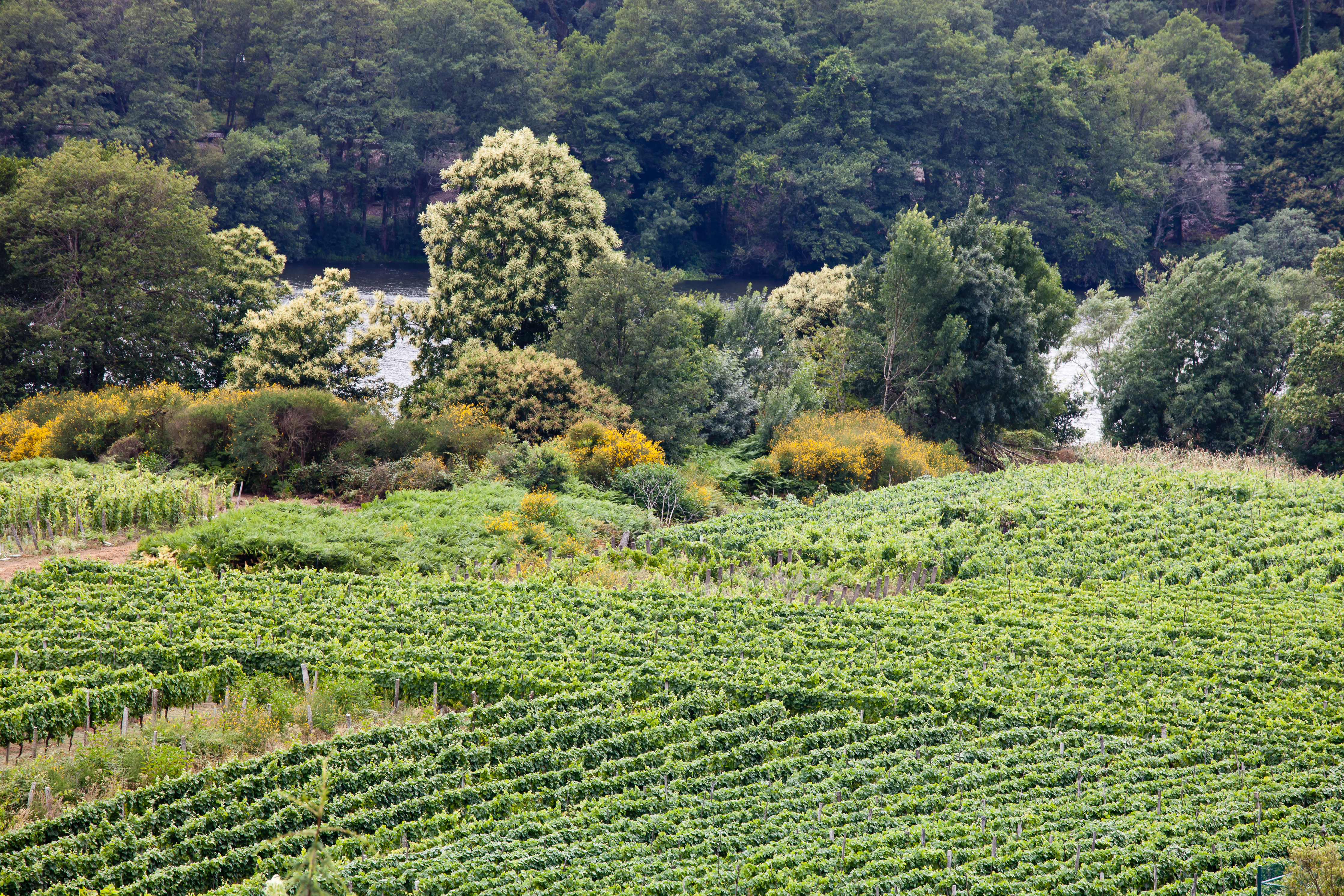 Vineyards. Ribeiro wine. Miño river, A Arnoia, Galicia (Spain)